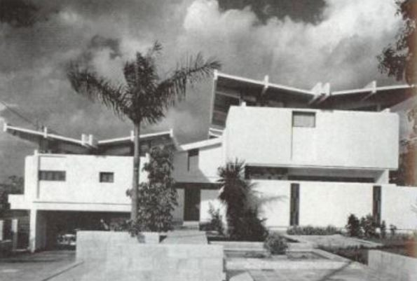 Mario Romañach_Casa de Ana Carolina Font. 1956